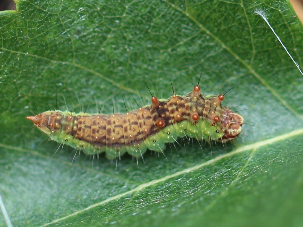 Drepana falcataria